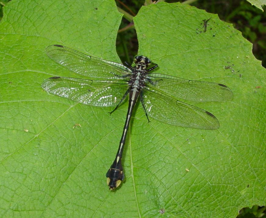 Gomphus vastus, Cobra Clubtail 2, Pulaski County AR, 6-29-03.